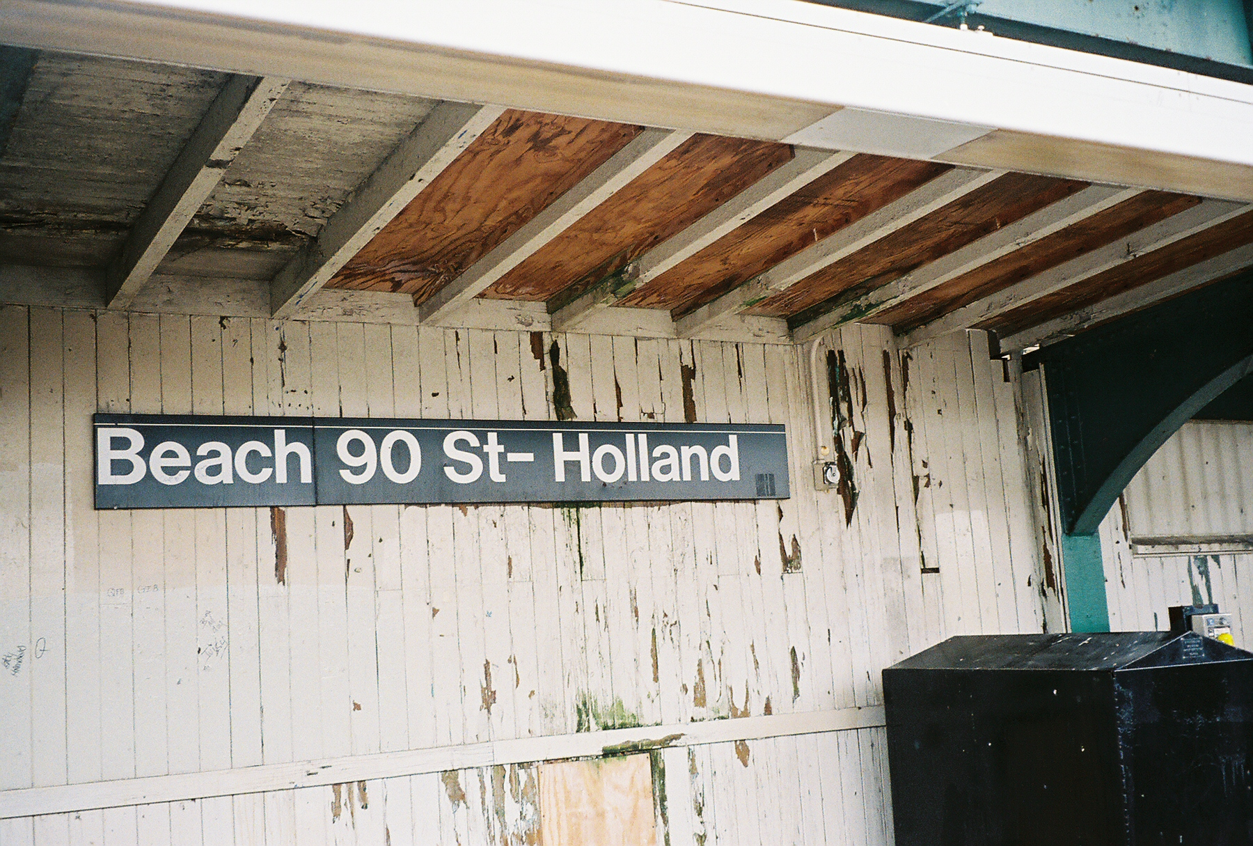 Photo for Wikipedia:Wikipedia Takes the Subway